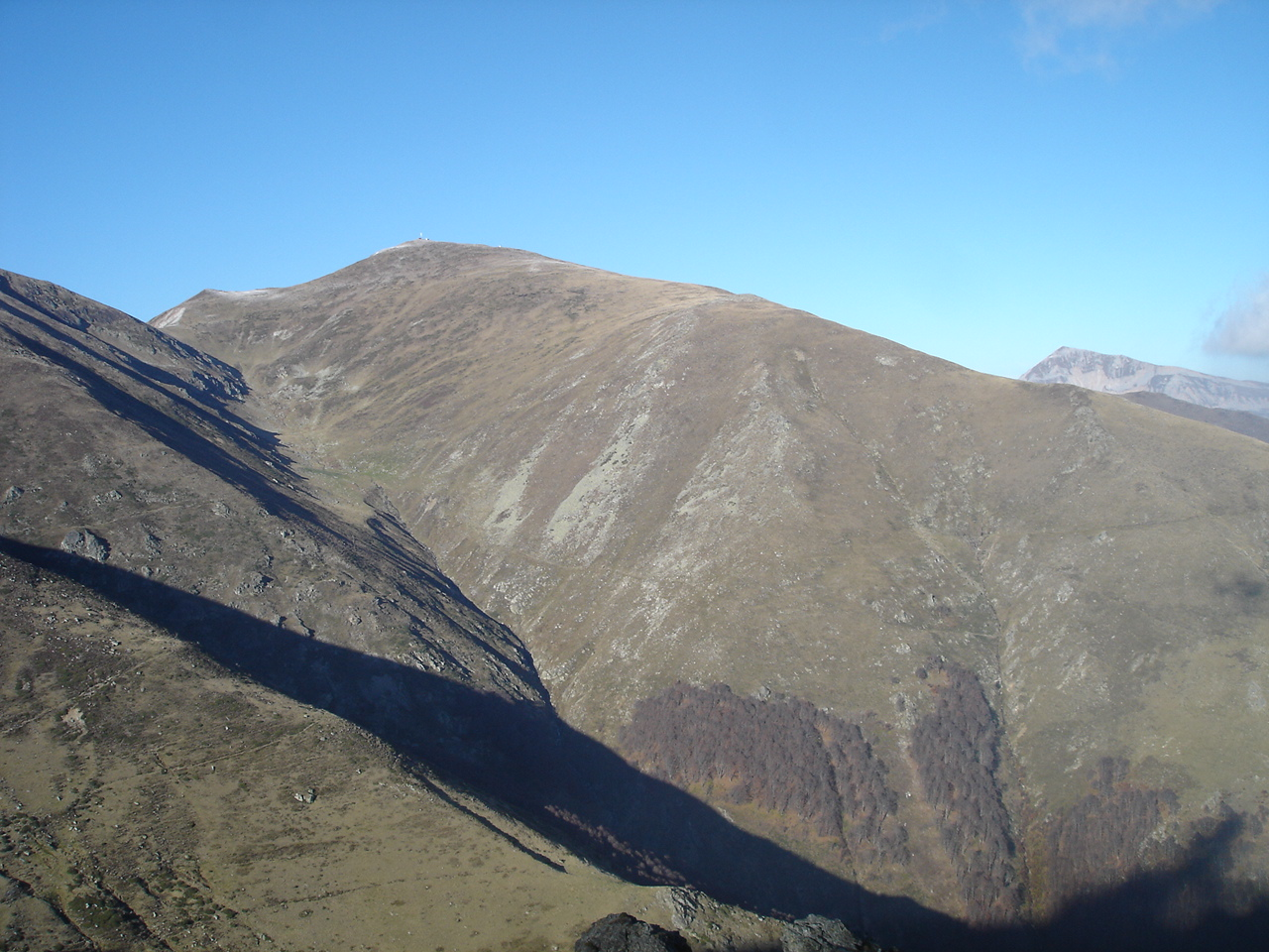 Piribeg peak on Shar Mountain, Macedonia